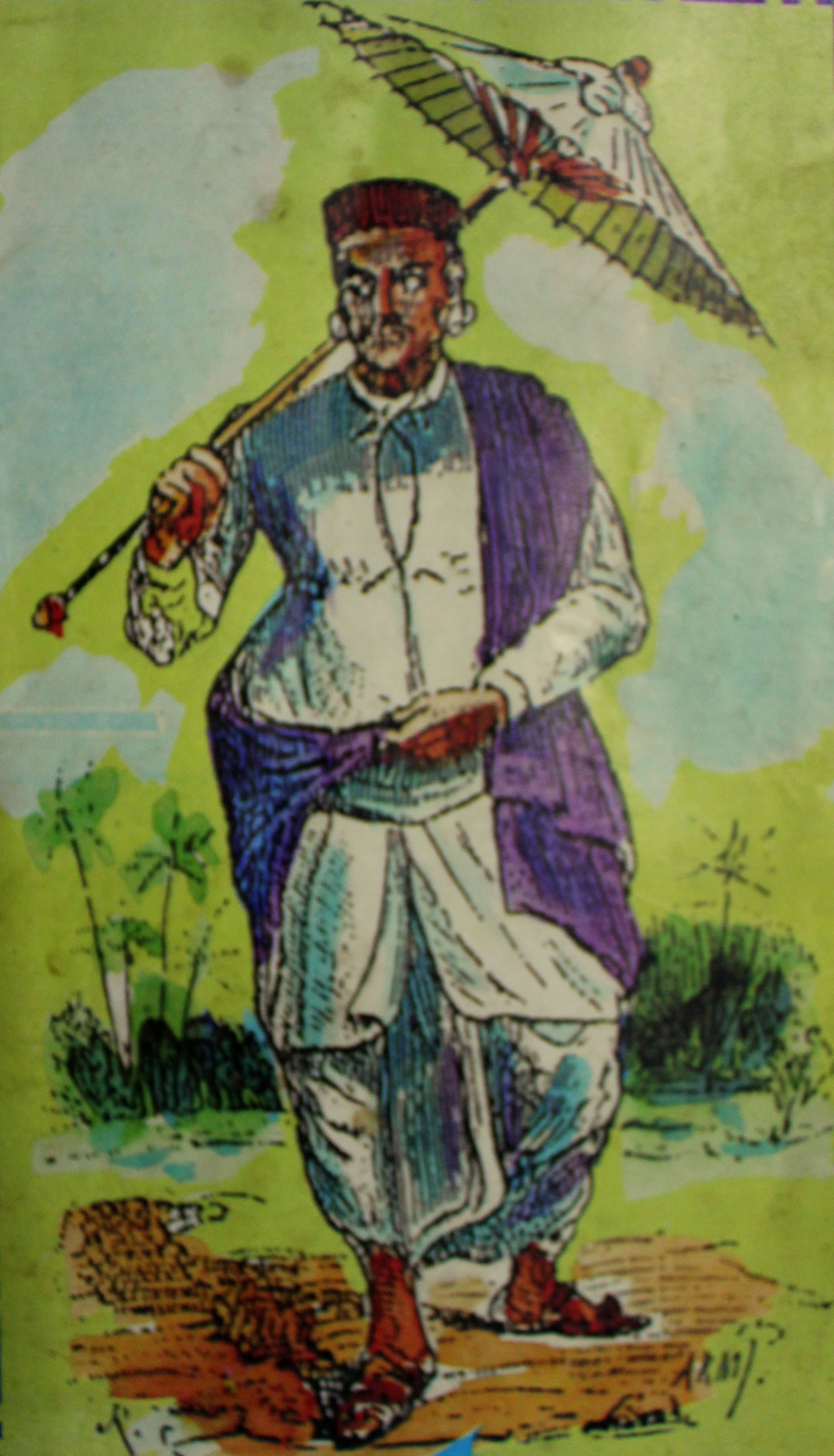 Shet gentleman from the early 19th century and late 18th century